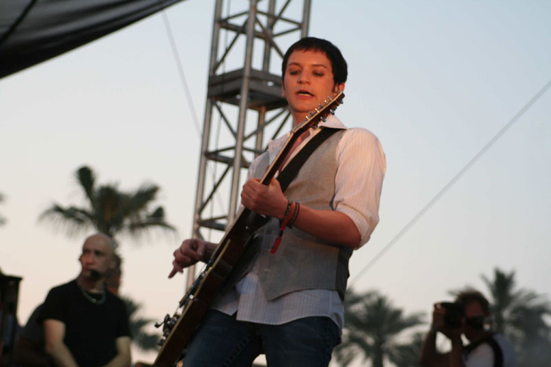 Placebo, Coachella 2007, Photo by Paul Familetti